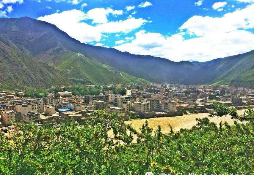 driru